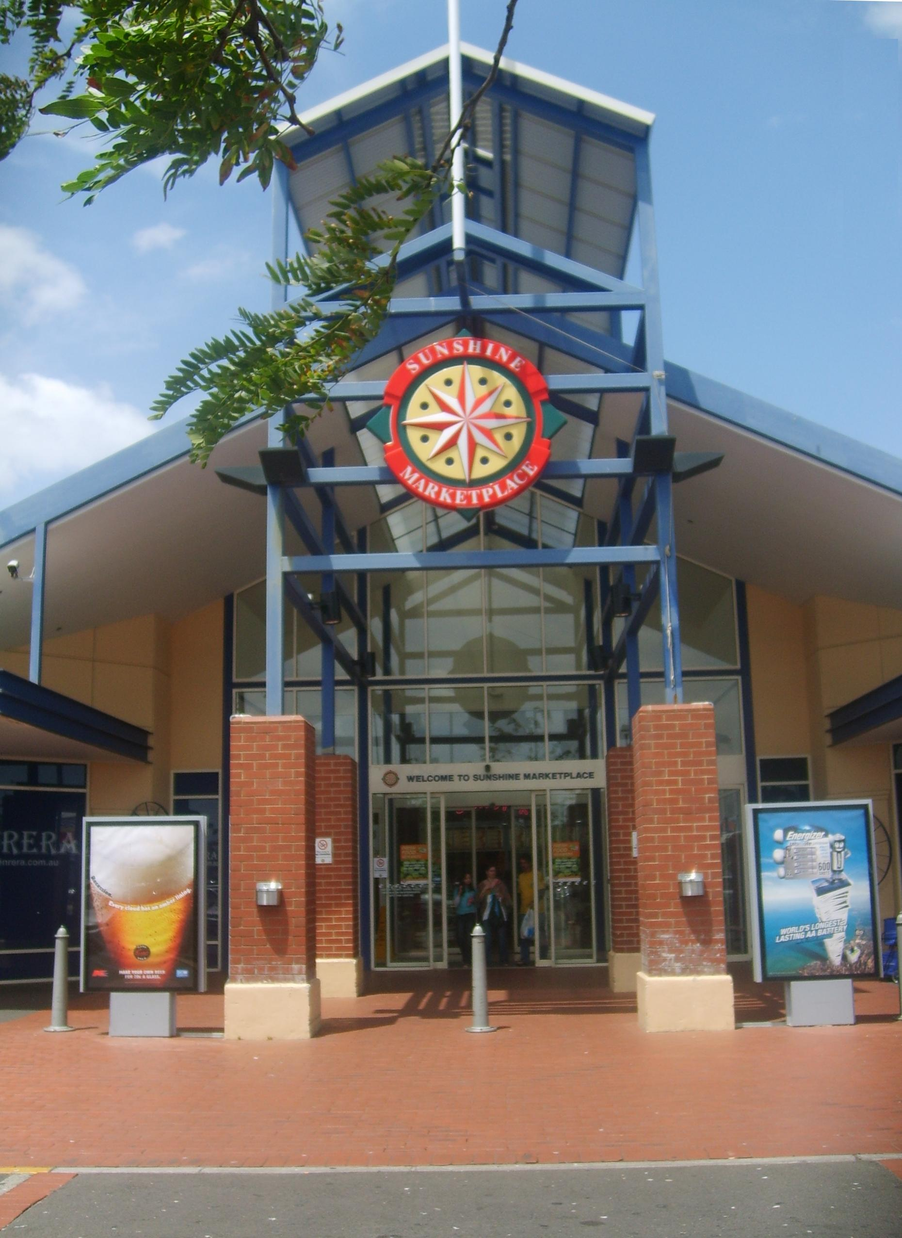 Entrance to Sunshine Marketplace from the main carpark at Sunshine, Victoria, Australia.